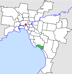 Location of the City of Mordialloc within Melbourne.